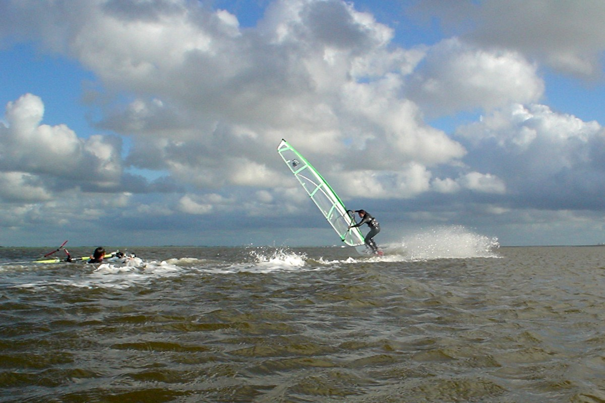 (Power-)Jibe off Norderney